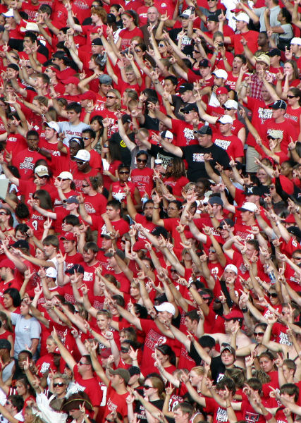 Texas Tech fans do the 'guns up' hand sign at a football game in Lubbock, TX.